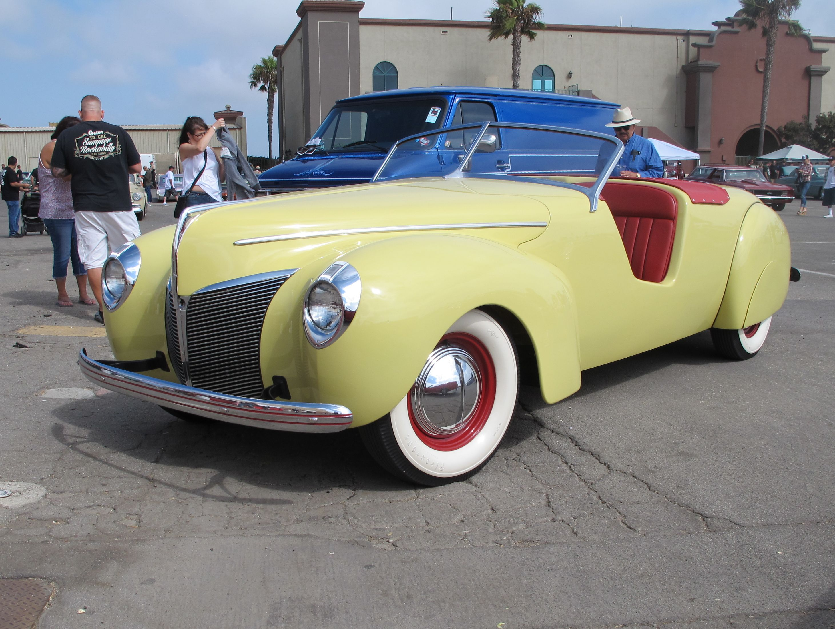 A pre-war custom car made by Coachcraft Ltd in North Hollywood California